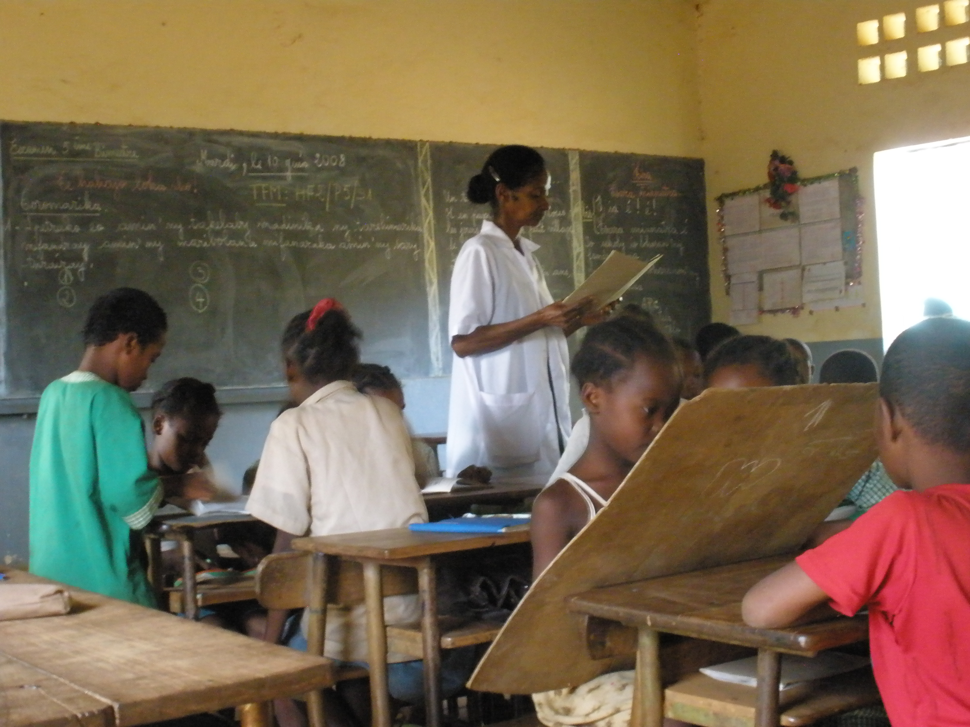 Students doing group work using oversized slates in a public primary school in Antsiranana, Madagascar